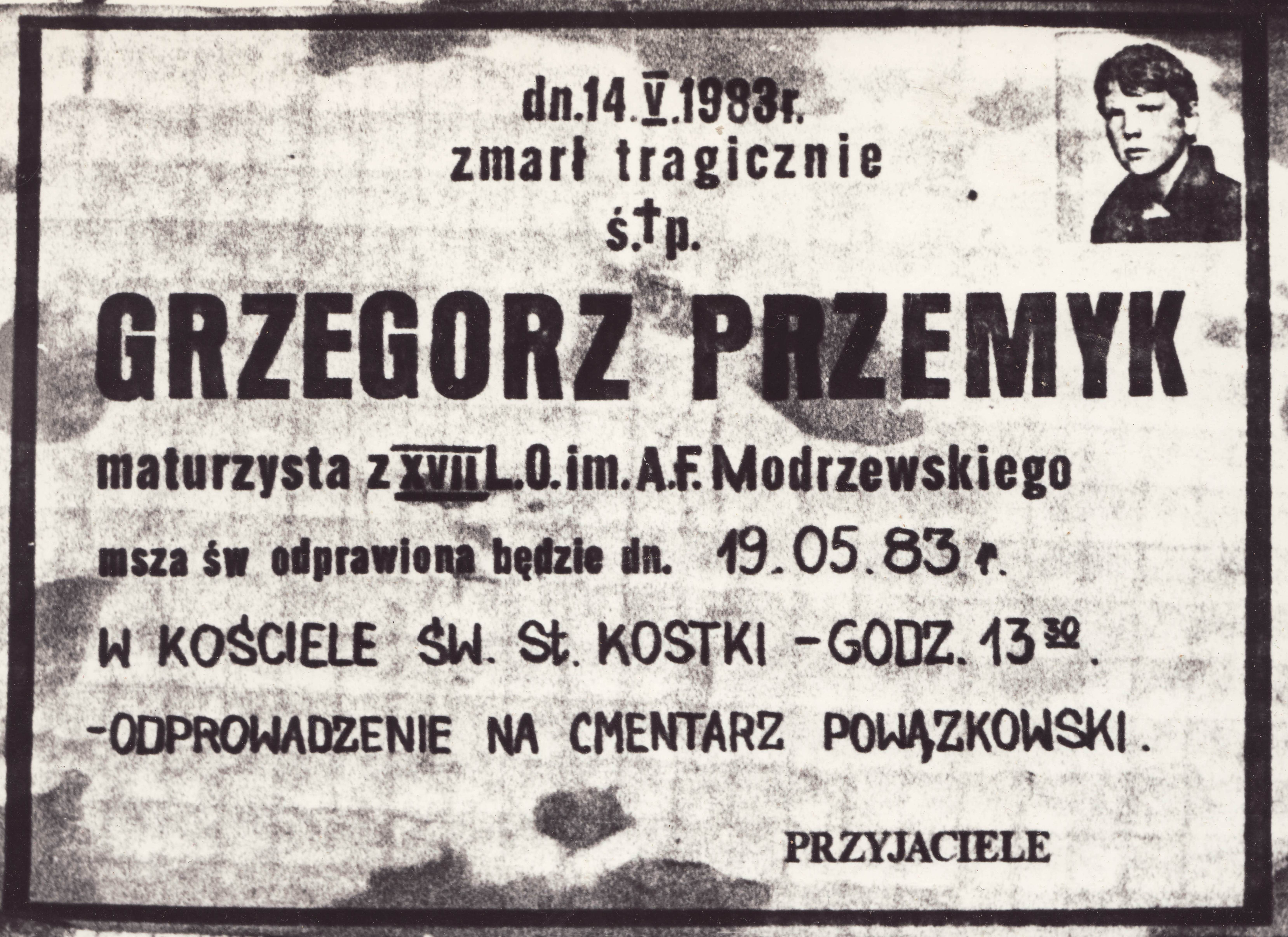 Funeral announcement of Grzegorz Przemyk.